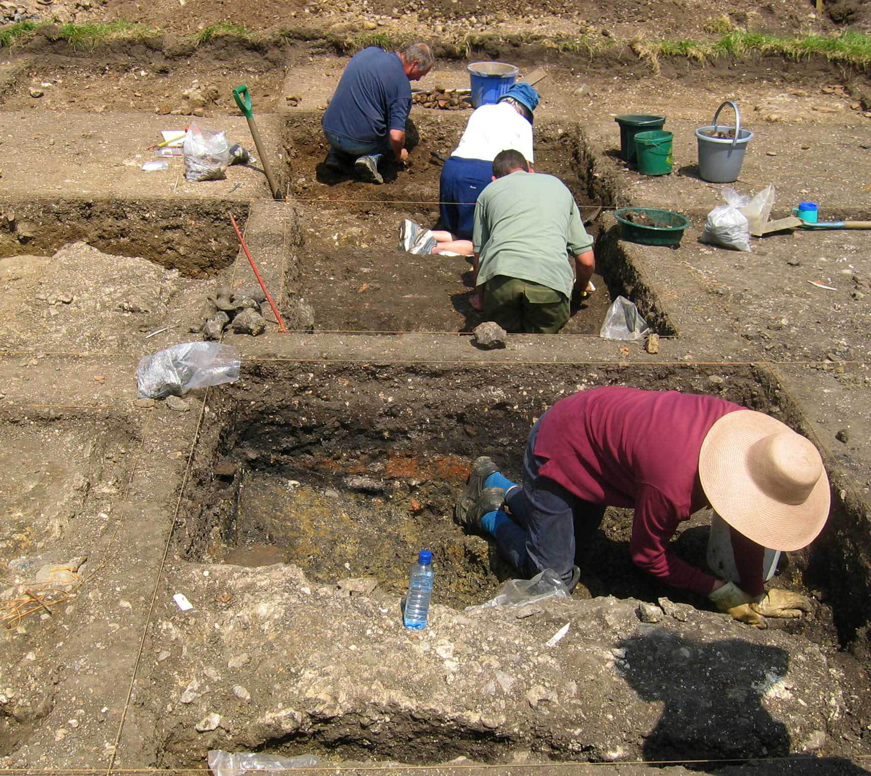 Excavations at Hitcham 2 (case study)